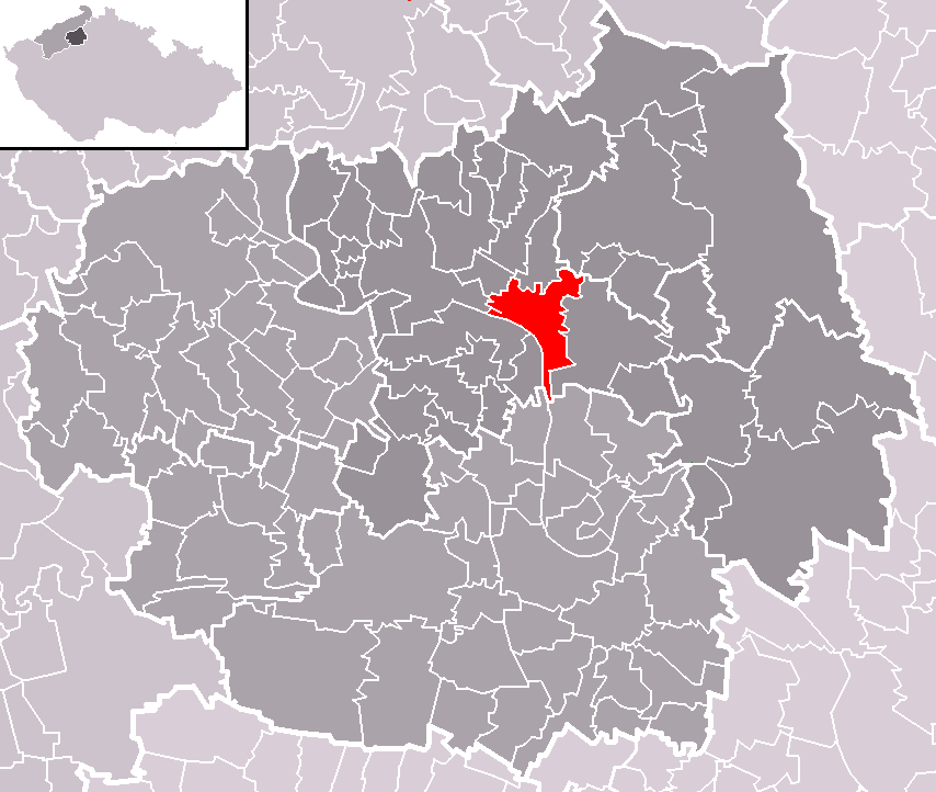 Location of Křešice municipality within Litoměřice District and administrative area of Litoměřice as a Municipality with Extended Competence.